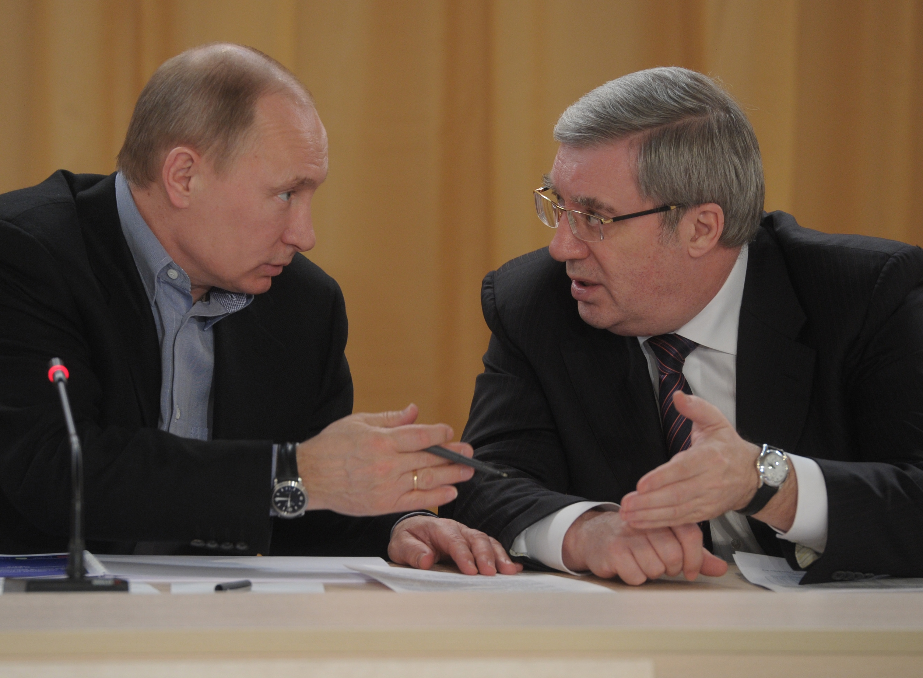 Prime Minister Vladimir Putin and Presidential Plenipotentiary Envoy to the Siberian Federal District Viktor Tolokonsky at a meeting on earthquake relief in Siberian regions